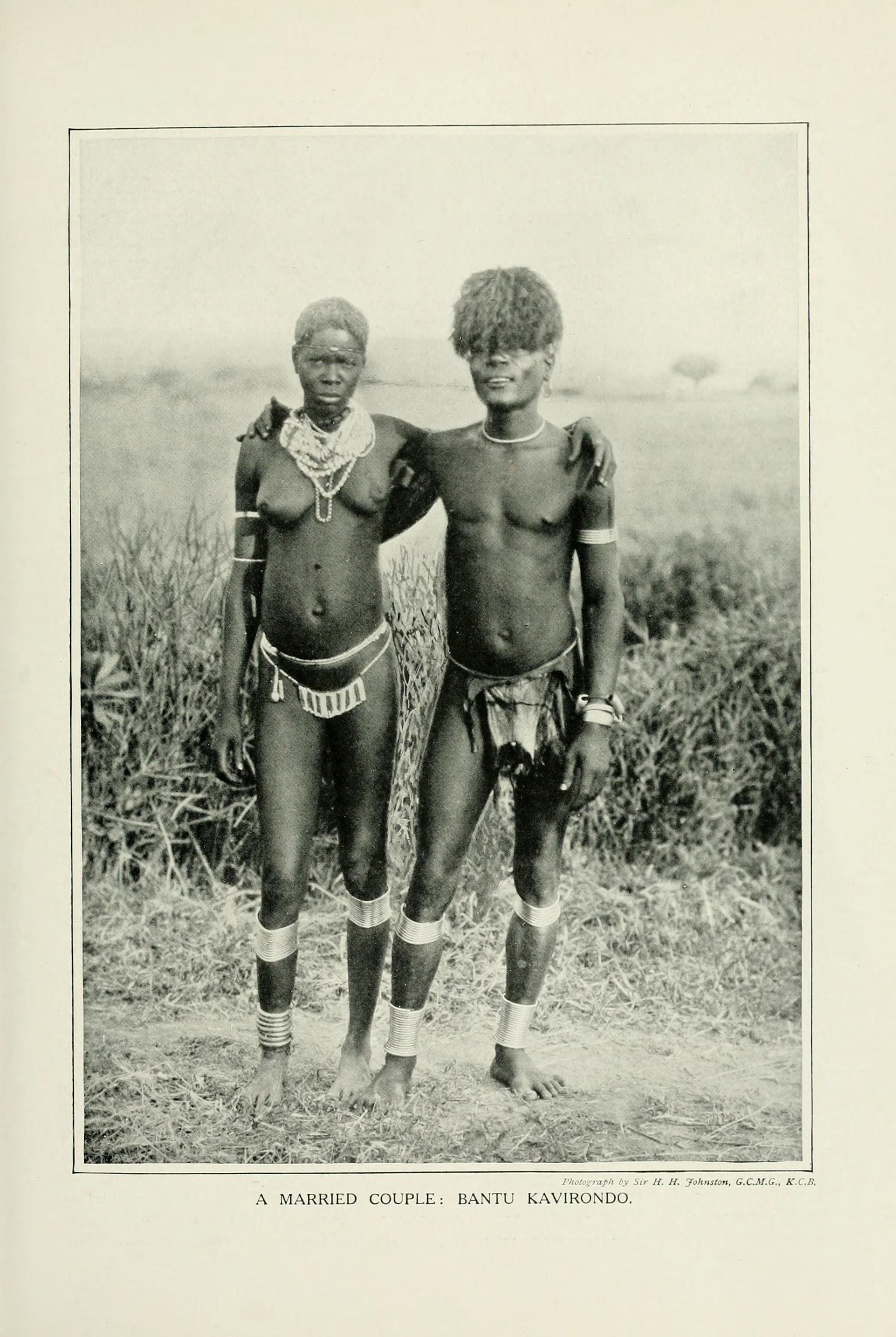 A married couple, Bantu Kavirondo Title: Women of all nations, a record of their characteristics, habits, manners, customs and influence; Year: 1908 (1900s) Authors: Joyce, Thomas Athol, 1878-1942 Thomas, Northcote Whitridge, 1868- Subjects: Women Publisher: London, New York (etc.) : Cassell and Company, limited Text Appearing Before Image: und their waists, and dance round drums, sing-ing meanwhile asong adapted to theoccasion. The restof the company sitin groups, watchingthe dancers, drink-ing beer, andsmoking. Thefather makes theround of the groupsto receive the con-gratulations of hisfriends, the mothersitting in the mean-time with her childat the door of thehut, where, one byone, the guests con-gratulate her. Dur-ing a pause in thedancing the peopleassemble in a semi-circle round thehappy mother, andthe eldest grand-father takes thechild, and holdingit up cries, Itsname is So-and-So,e.g., Mwenda or Ka-taruba. This isgreeted with shoutsof Mwenda, mayhe be happy, may he be brave, may hehave many wives, may he become great! and such-like good wishes for the childsfuture. A Waganda child receives only onename, but the variety of names among themis very great. The names of gods, animals,or insects are often given. Or it may be that they go to a funeral,though women are buried without anyceremony whatever. When a man dies Text Appearing After Image: ■. ■«►,. f